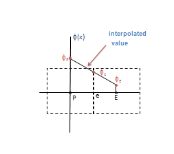 it gives ways for doing interpolation